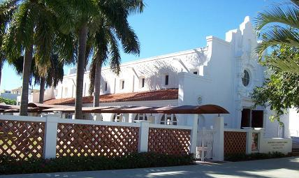 Church on Lincoln Road in Miami Beach, Florida.